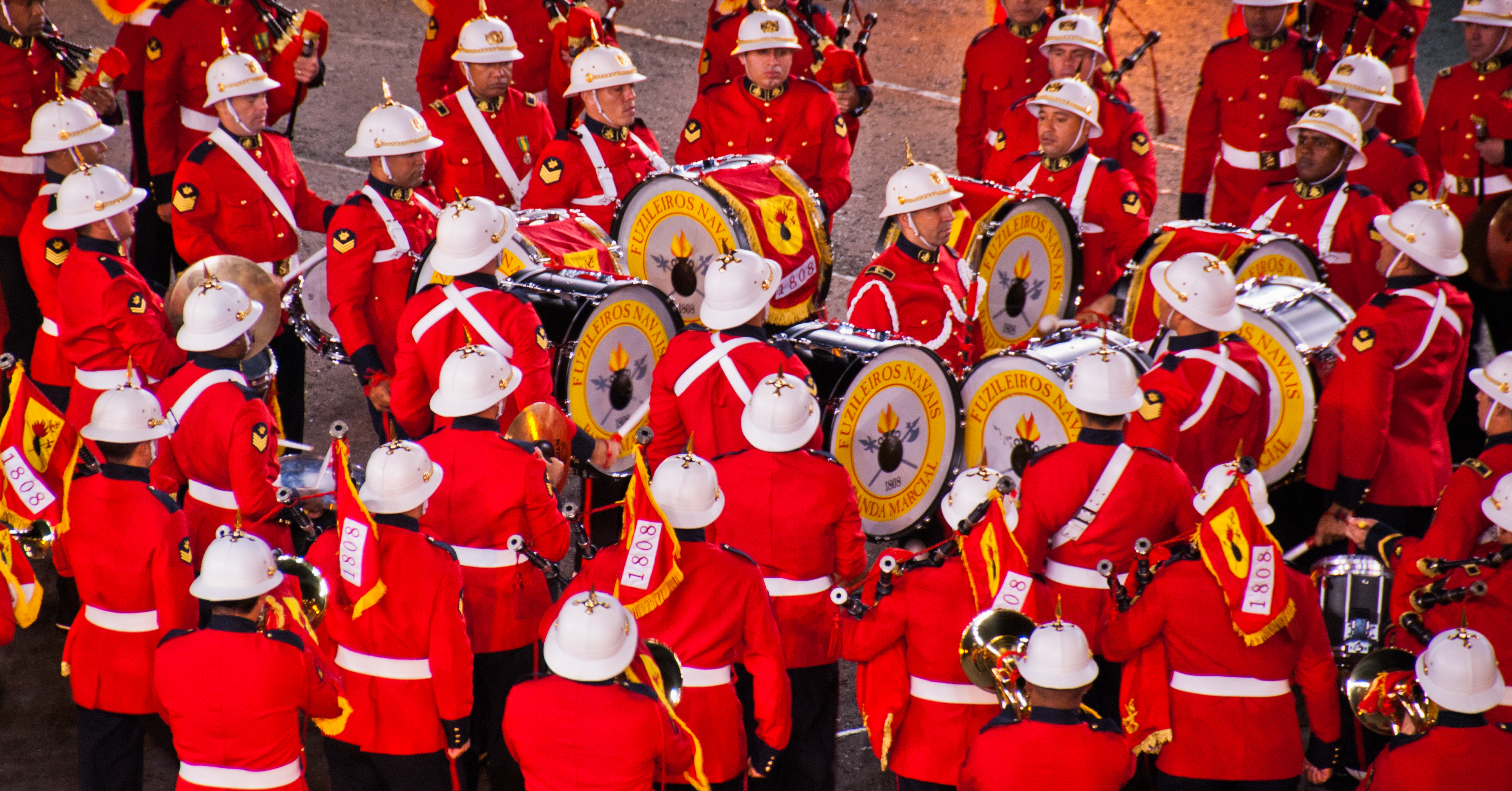 Edinburgh Tattoo